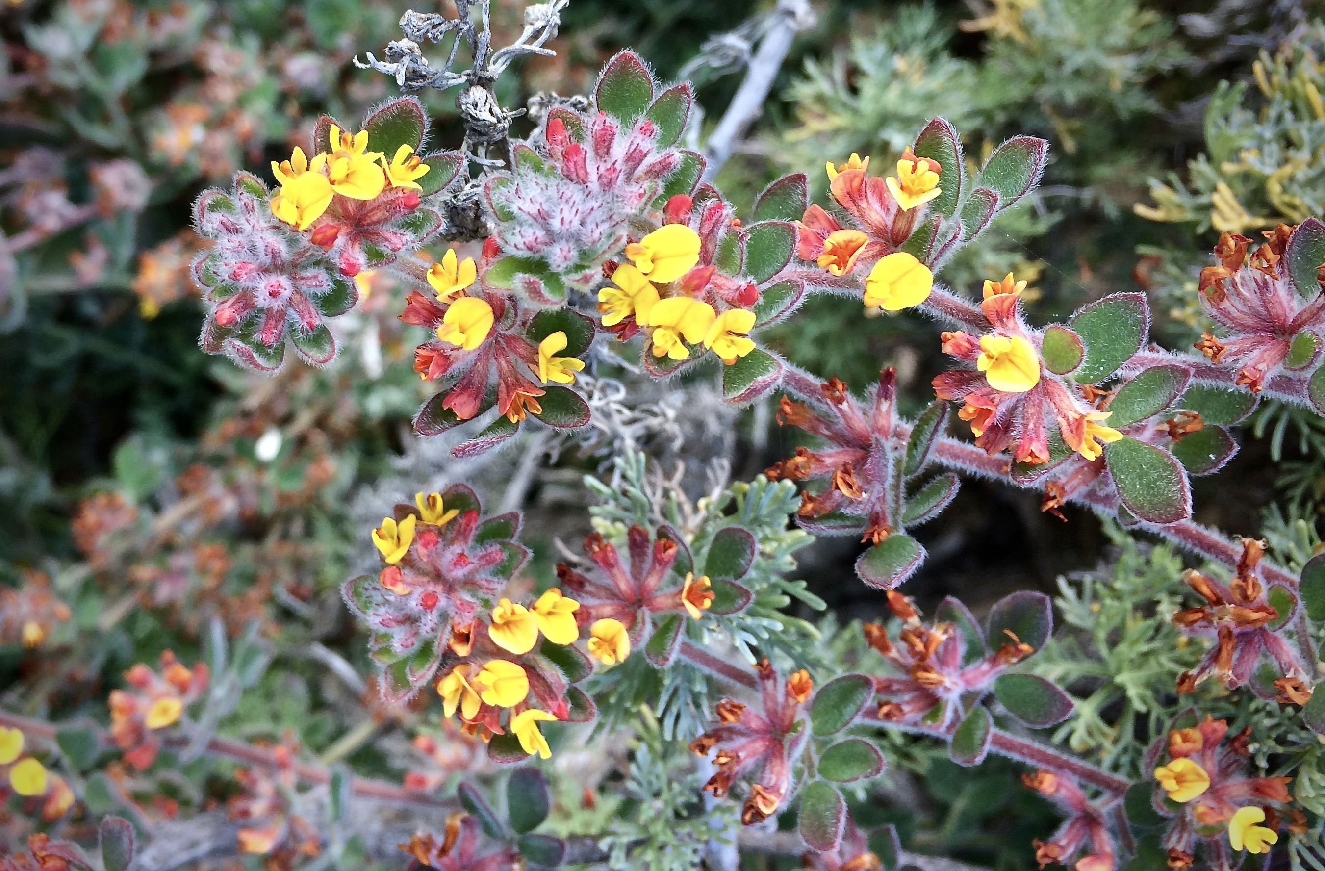 Calflora: Location: first headland north of Pico Creek (which is still flowing). I scrambled up a trail of use beyond a big serpentinite boulder. The alternative is to walk in from the first gate north of the bridge, from Hiway 1. Unfortunately, the poison oak is in luxurious growth from the recent rains, so I wouldn't recommend that route.